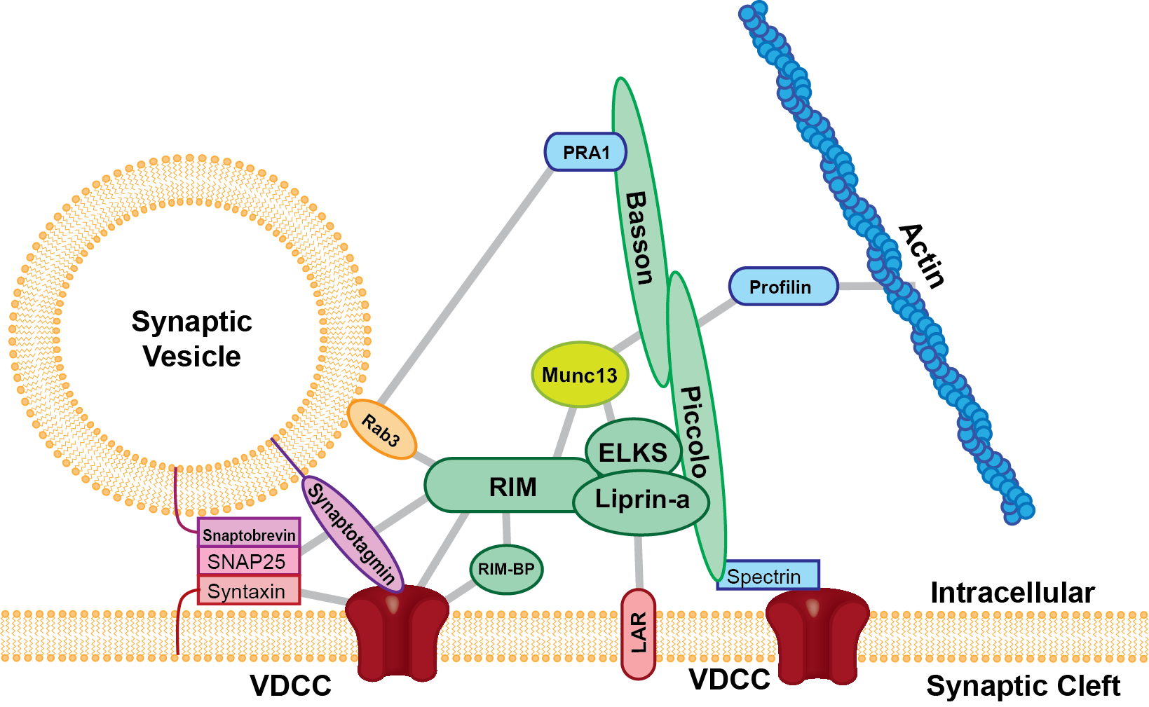 This is diagram of the proteins found in the active zone. This is not an exhaustive diagram as there are likely more proteins within the active zone and additional protein interactions that have yet to be identified. (Grey lines) protein interaction; (Green) scaffolding proteins; (ELKS) ERC/RAB6-interacting/CAST; (PRA) prenylated Rab acceptor; (Rab) Ras-related in brain; (RIM) Rab interacting molecule; (SNAP) synaptosome associated protein; (VDCC) Voltage-dependent Calcium Channel. Adapted from Mittelstaedt, Alvarez-Baron, and Schoch. RIM proteins and their role in synapse function. Biol. Chem., Vol. 391, 599-606